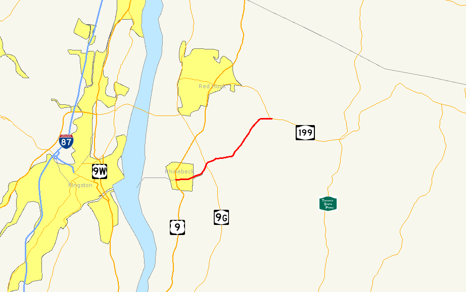 Map of New York Route 308